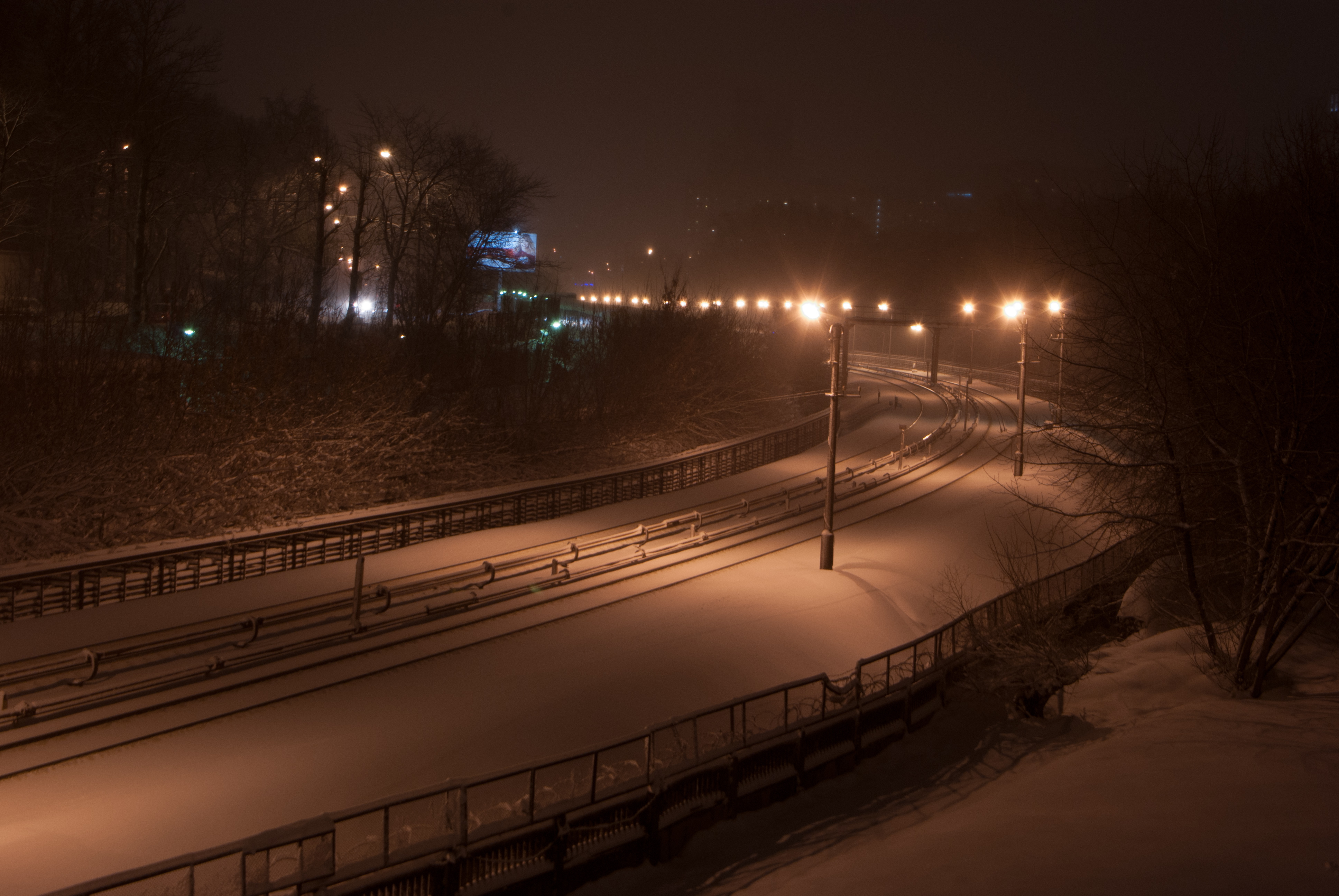 Railway between Kuntsevskaya and Molodiozhnaya subway stations.